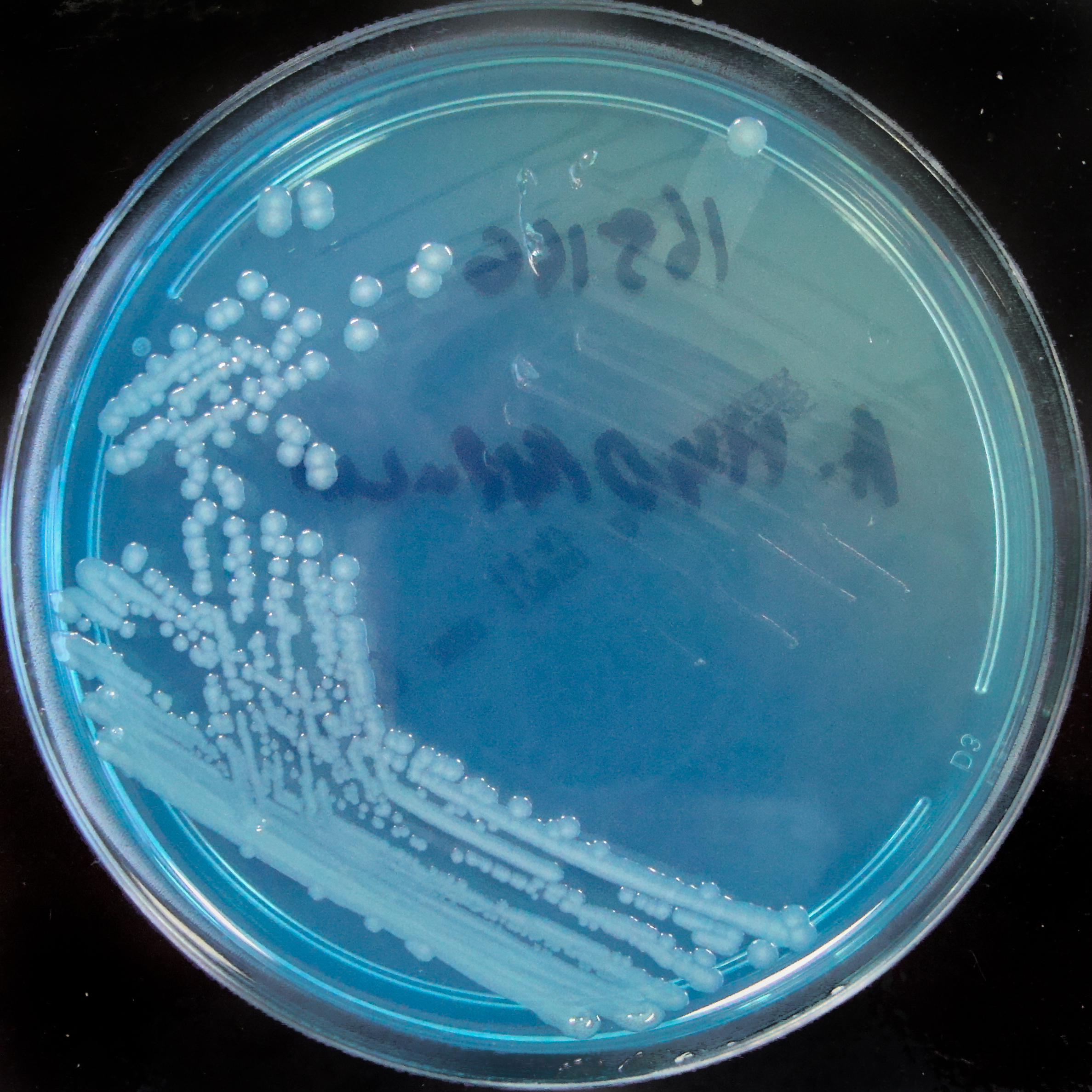 Aeromonas hydrophila isolated from blood culture from a patient with severe diarrhoea